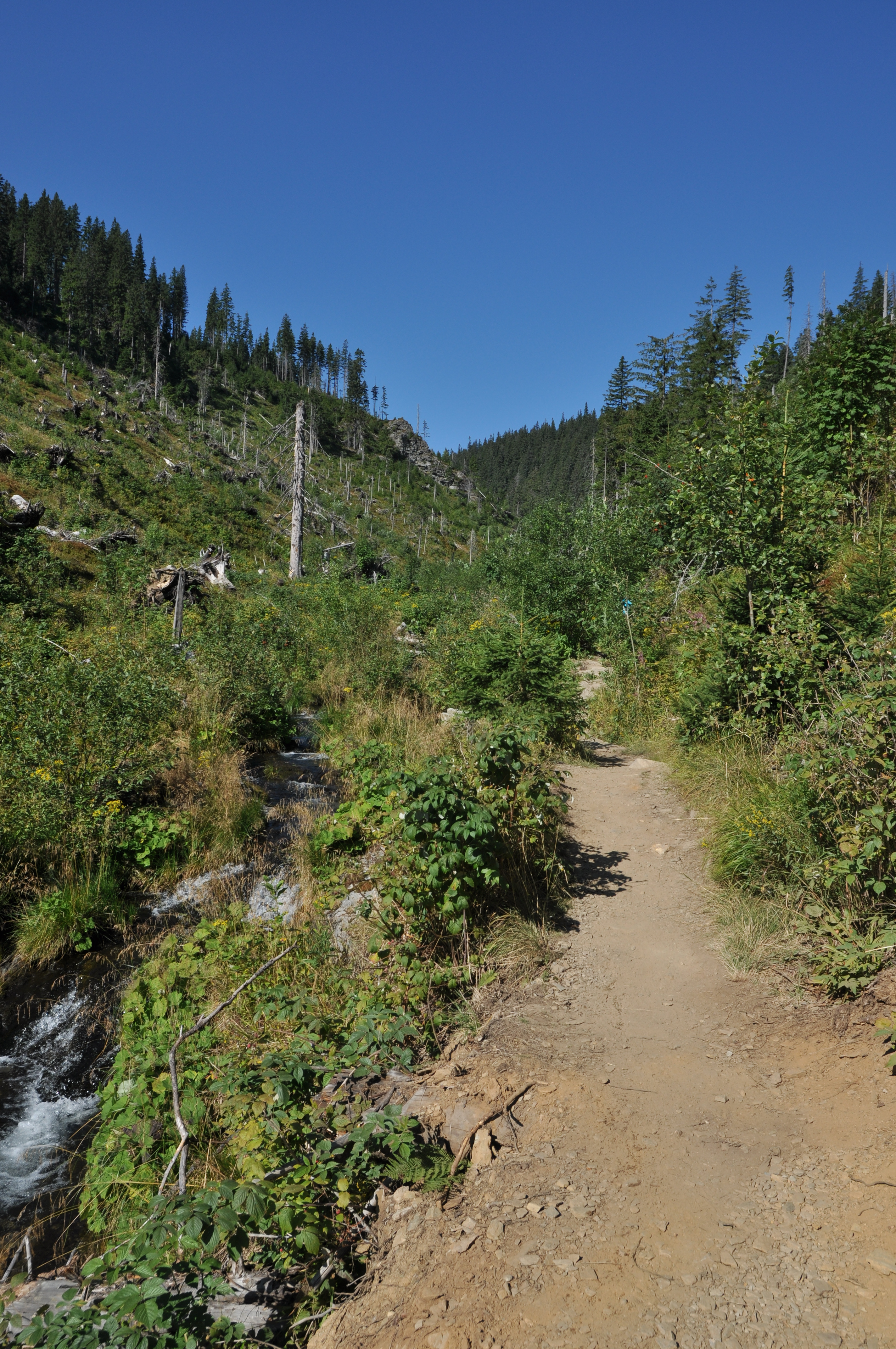 Valley of White Opava river in Jeseníky mountains, Czech rep.